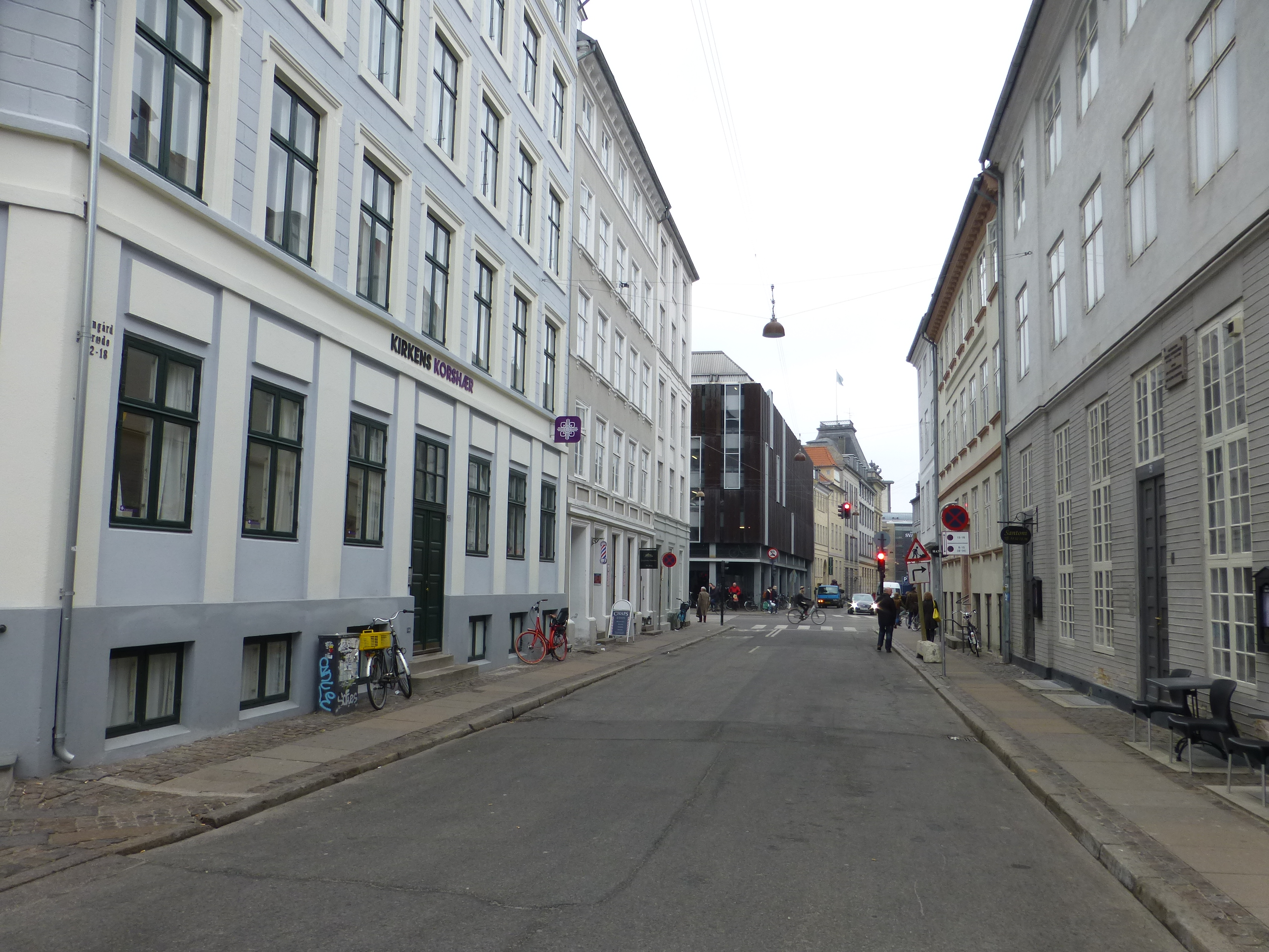 The street Vingårdstræde in Indre By in Copenhagen.